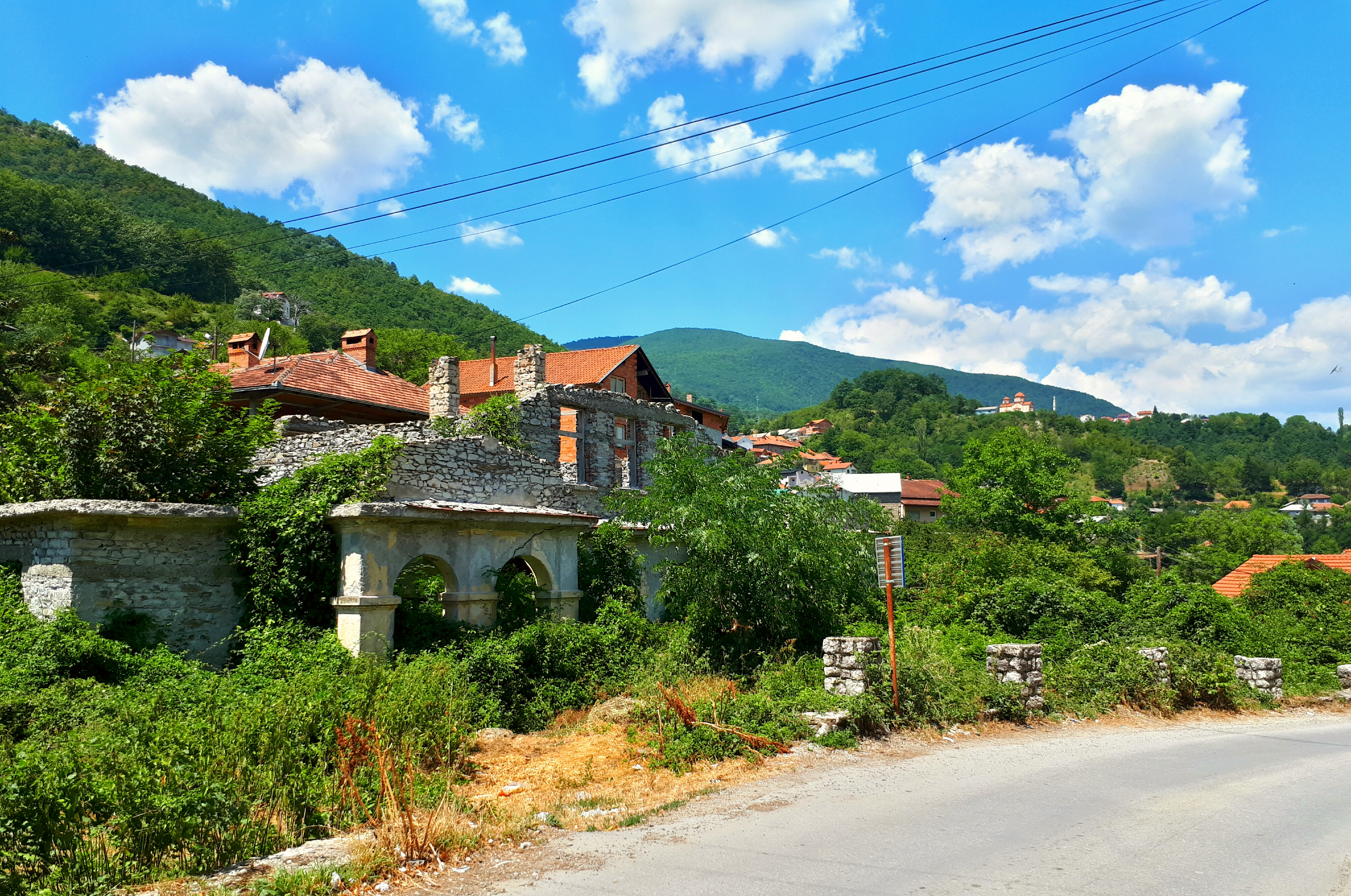 Taken during Wikiexpedition to Reka 2017